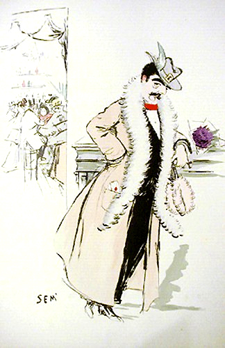 Caricature of Jean Lorrain